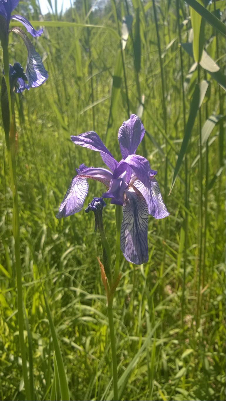 Dry grassland in th Petite Camargue Alsacienne